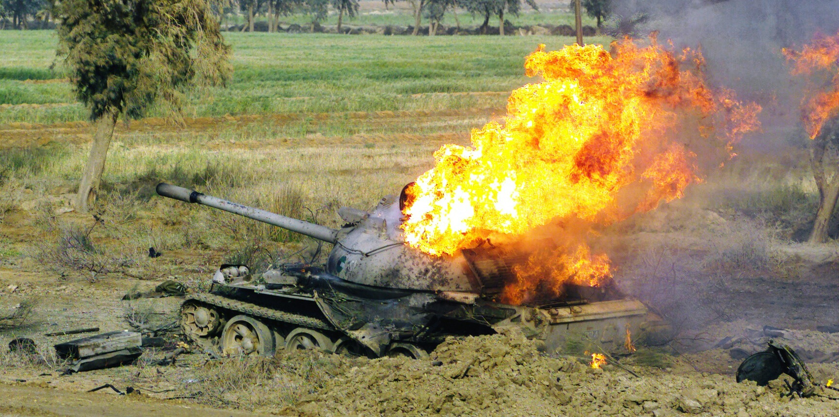 Burning Iraqi Type 69 destroyed by U.S. Marines during Operation Iraqi Freedom. An Nu'maniyah, Iraq, along Highway 27.